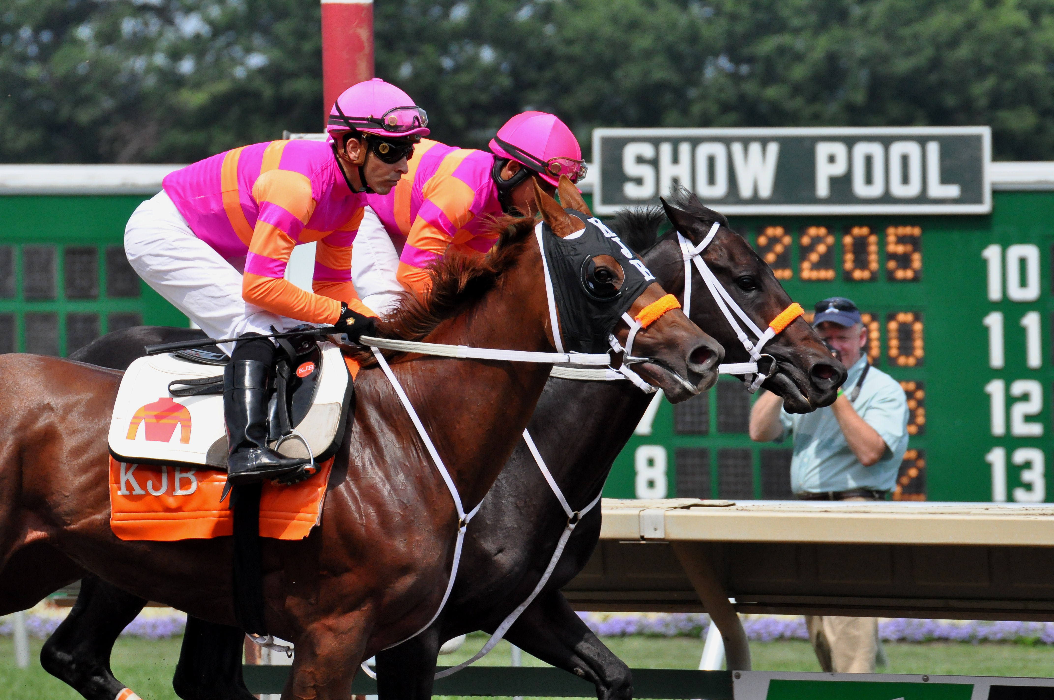 Thoroughbreds, Ruler on Ice (left) and Pants on Fire in July 2011 workout at Monmouth Park in preparation for the 2011 Haskell Invitational Handicap. The duo was dubbed "Fire and Ice" by the media. Both horses were trained by Kelly Breen and finished third and fifth, respectively, in the Haskell.